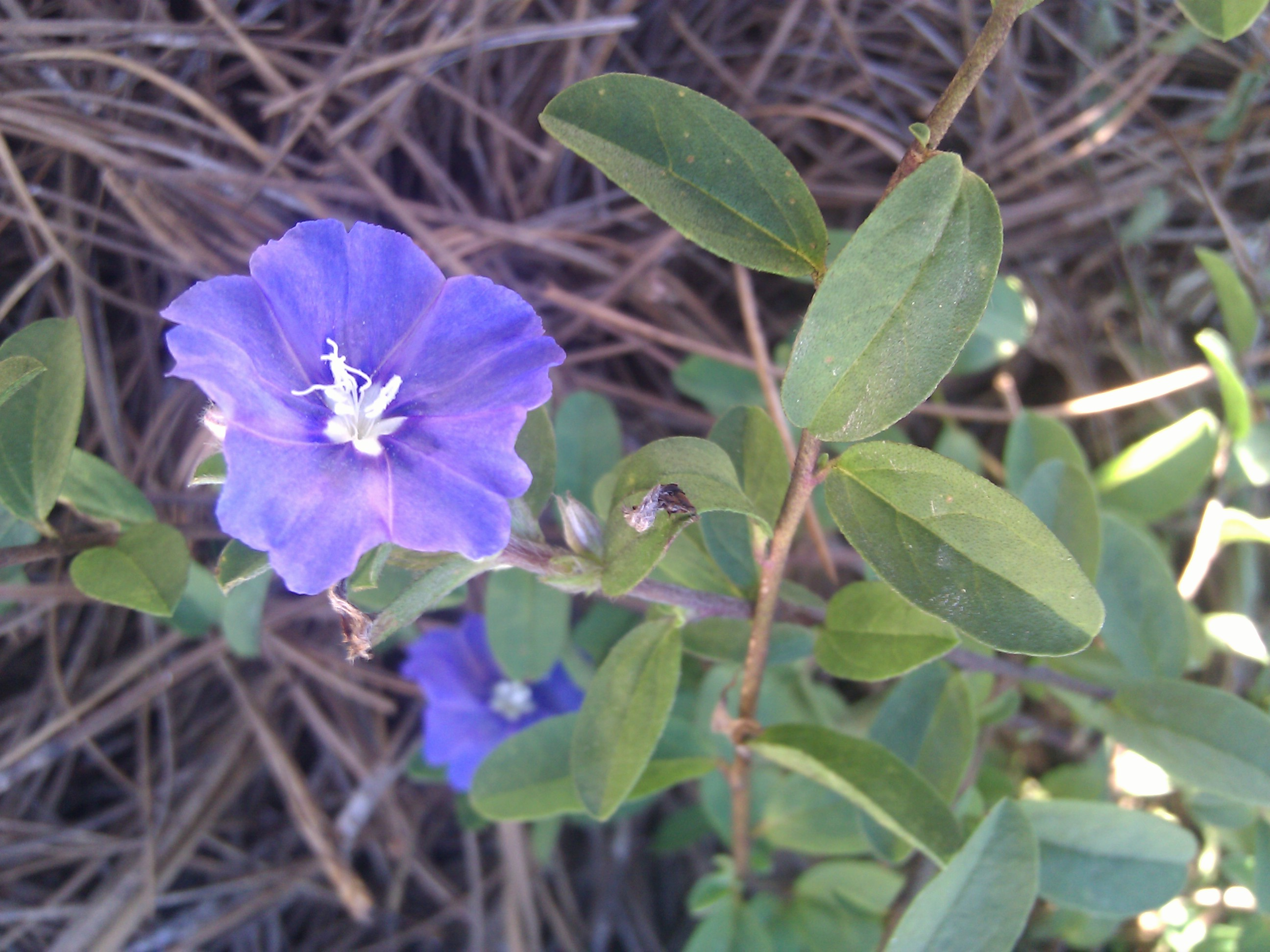 "Blue Daze" cultivar of Evolvulus glomeratus, freshly planted in pine straw mulch. The flowers bloom all summer long and are about 1 inch (2.5 cm) across, with five pale lavender or powder blue petals and white centers. The oval leaves and woody stems are densely downy, covered with a light silvery fuzz.